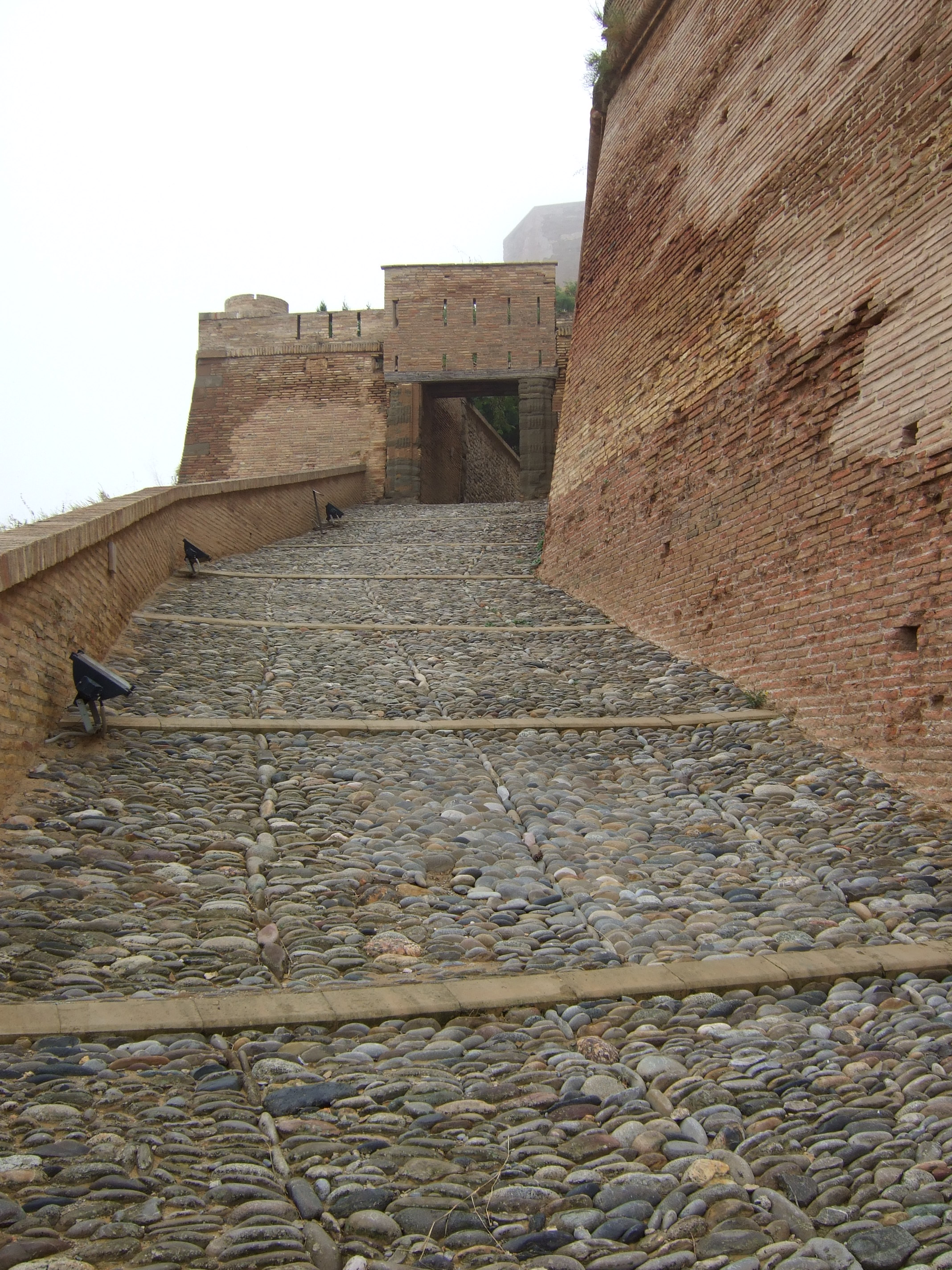 Castle of Monzon (Aragon, Spain)